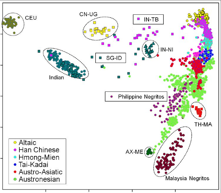 Figure 2-B from "Mapping Human Genetic Diversity in Asia" CEU: European Americans CN-UG: Uyghur in China SG-ID: Tamil in Singapore with Indian ancestry IN-TB: Ladakhi in India IN-NI: Tharu in India TH-MA: Mlabri in Thailand AX-ME: Melanesian in Pacific.